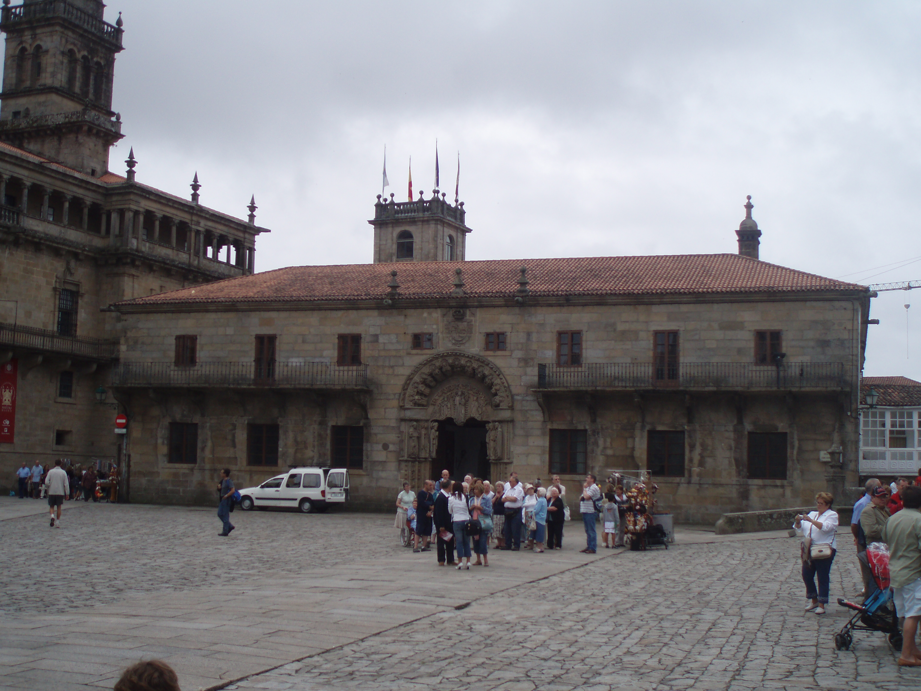 San Jerónimo College, at Obradoiro Place of Santiago of Compostela, in Spain.